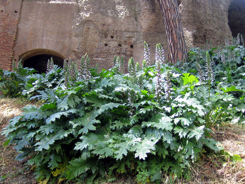 Acanthus mollis growing in the ruins of the Palatine Hill, Rome Source: antmoose, 17 May 2005 Released through Creative Commons by the photographer